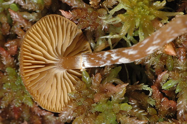 Galerina paludosa from Commanster, Belgium. The determination of the species shown in this picture has been verified.